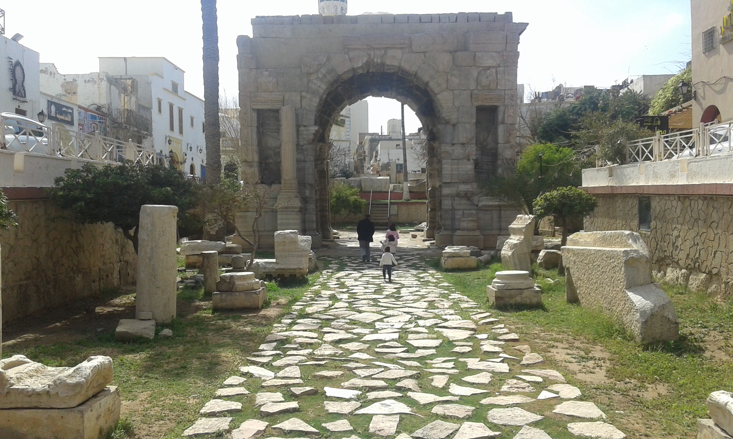 ميدان قوس ماركوس أوريليوس الأثري - Arch of Marcus Aurelius Square